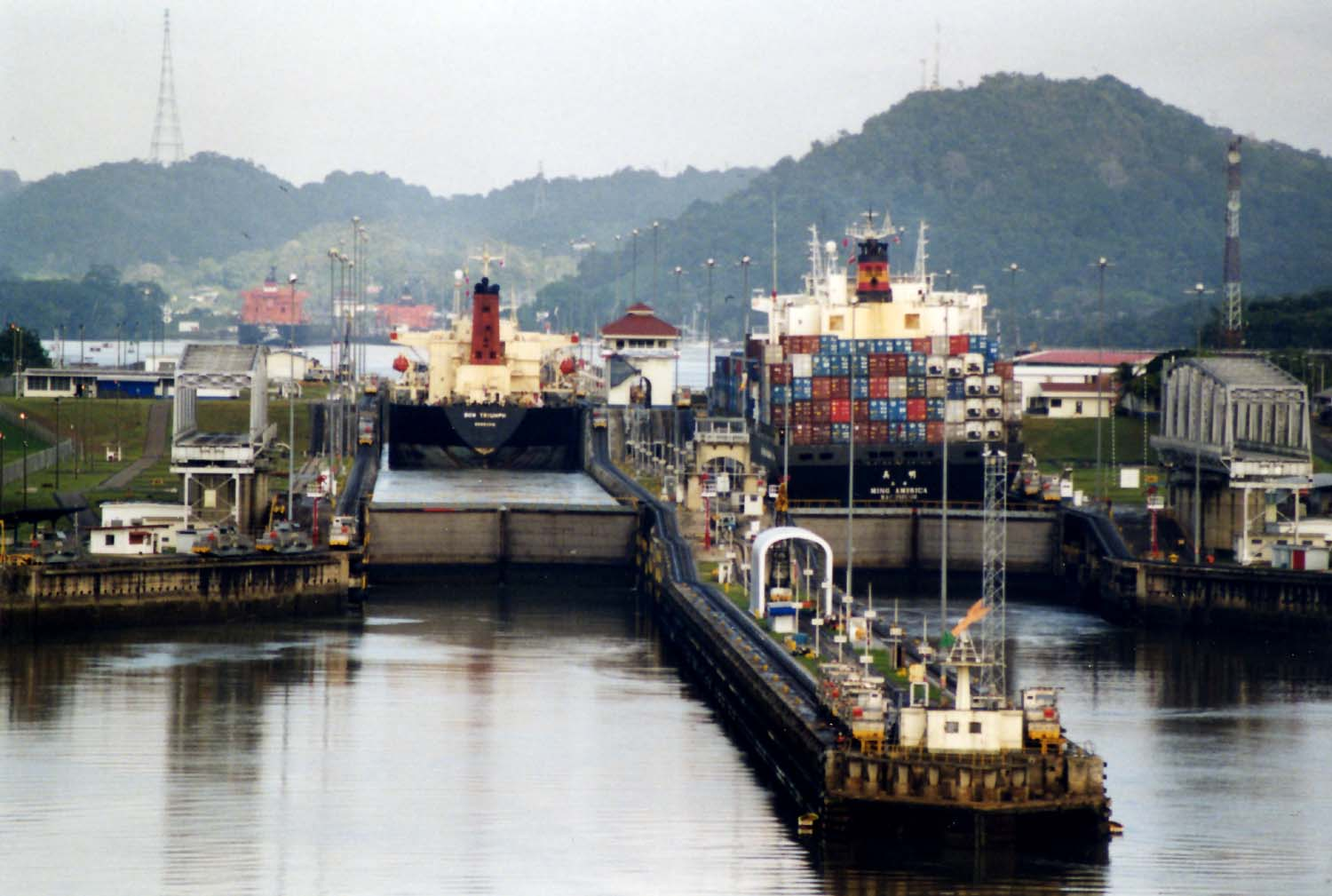 Panama Canal Miraflores Locks, looking northwards, towards Miraflores Lake, with the Pedro Miguel locks visible in the background. In the foreground, on the end of the approach wall, a large illuminated arrow can be seen; this rotates to indicate to ships which chamber they are to enter.